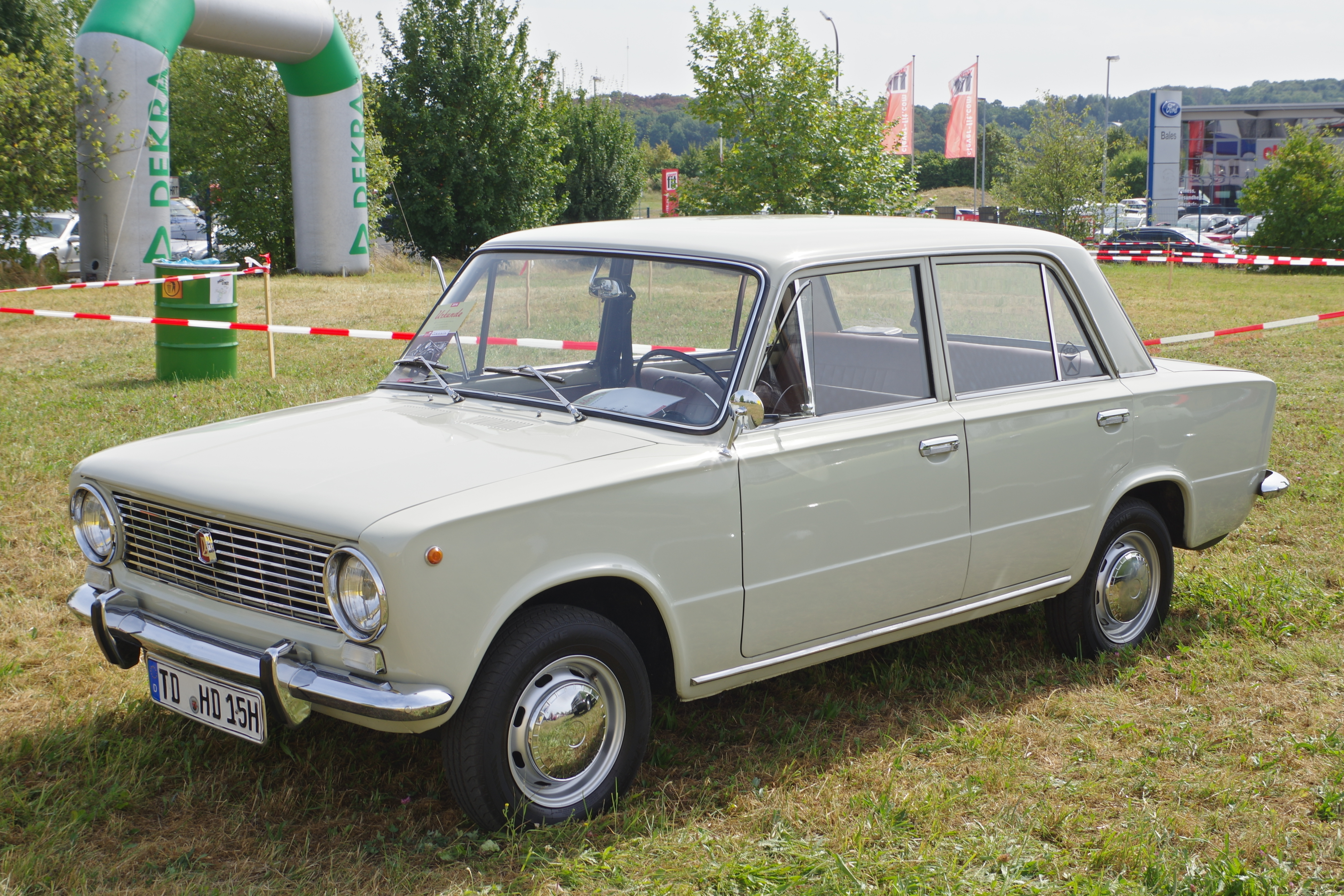 VAZ 2101, 1972, 1200 cm³, 60 PS , Bitburg Classic 2016